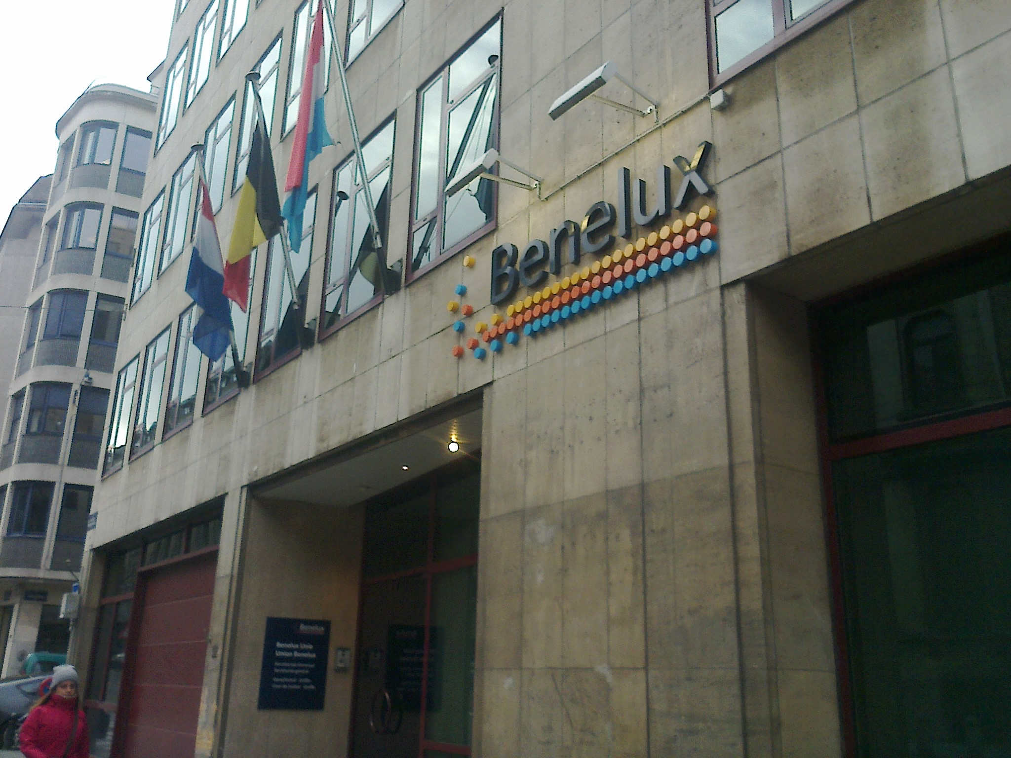 Benelux Union office in Brussels